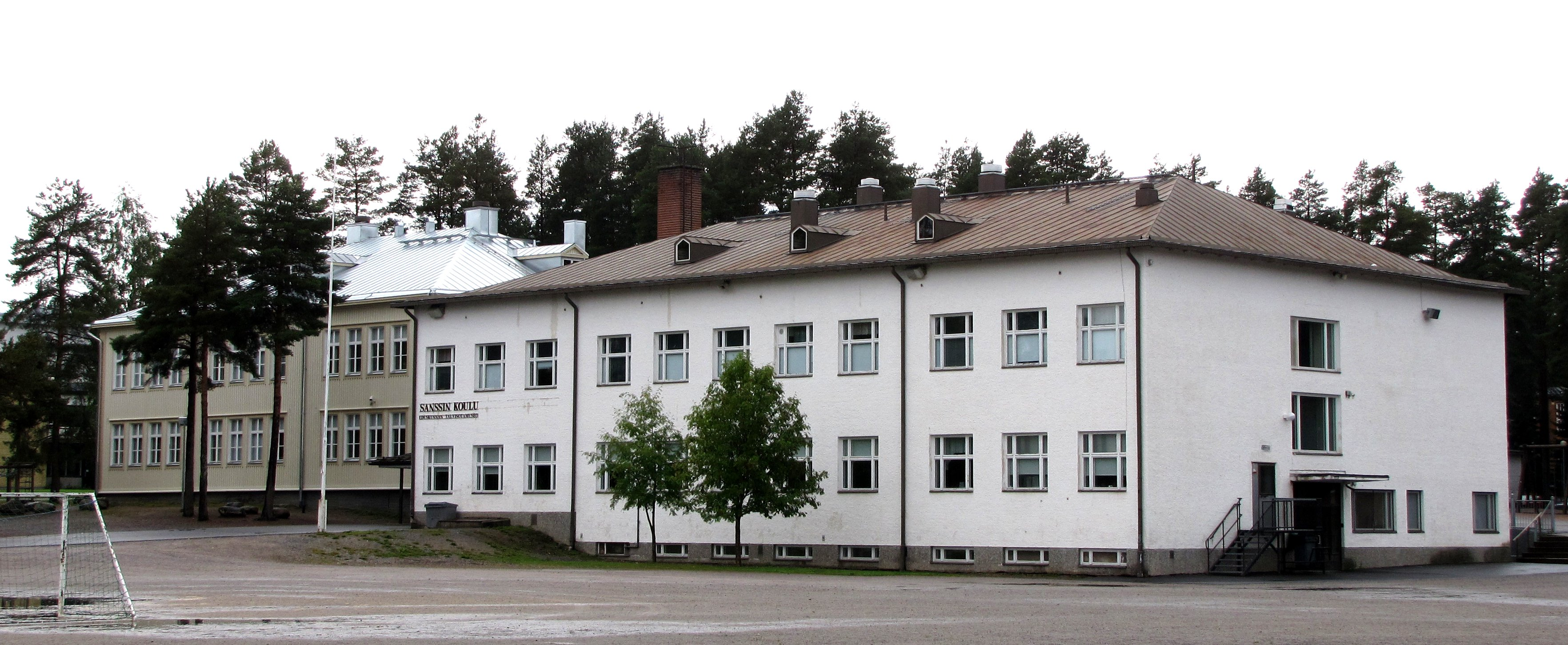 Sanssi elementary school (Sanssin koulu in Finnish) in Kauhajoki, Finland. The Parliament of Finland secretly assembled at the school during the Winter War from 1 December 1939 to 12 February 1940.